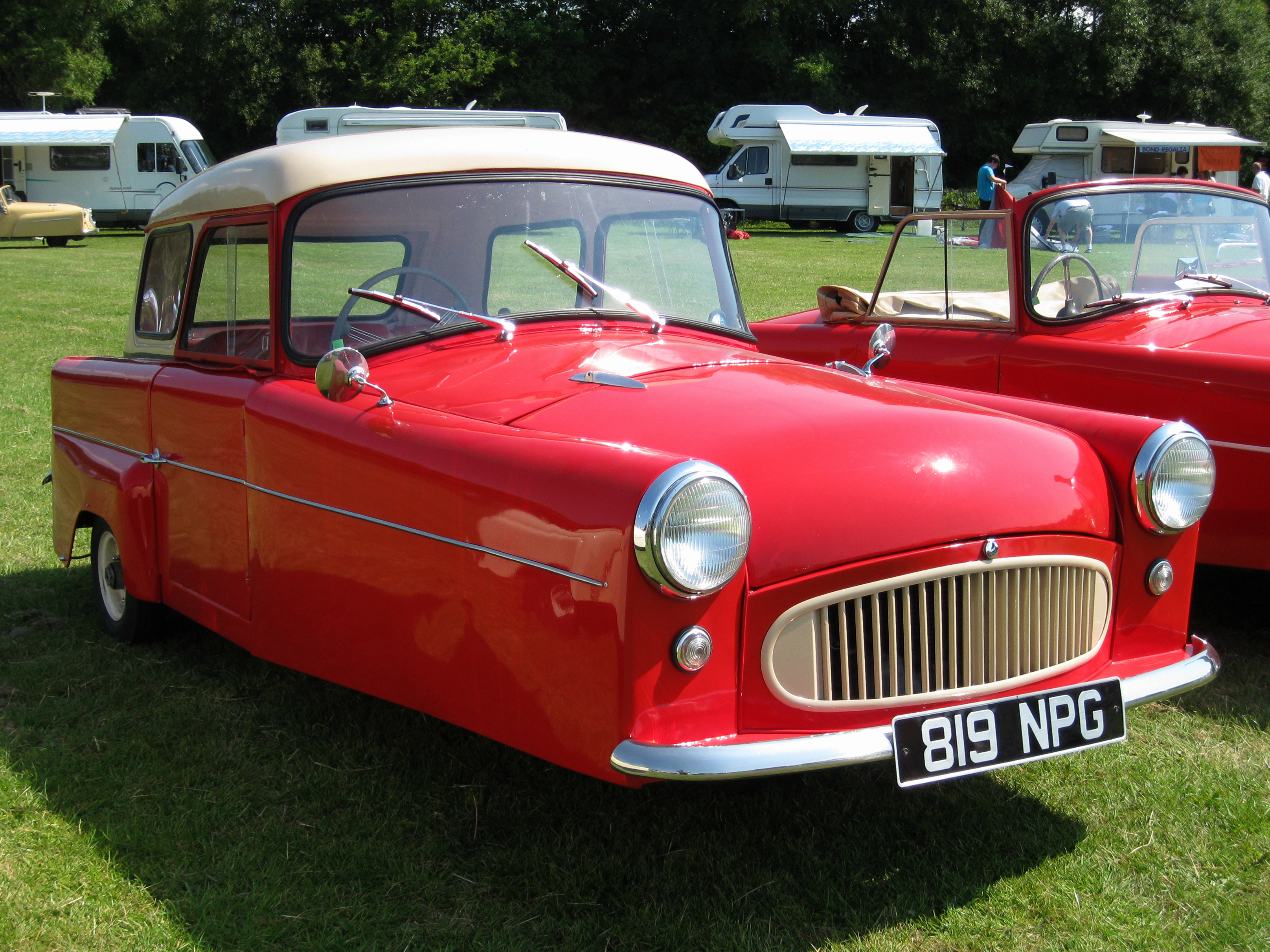 1960 Bond Minicar Mark F Family Saloon, fitted with roof from Ranger van with opening rear window, modified with additional side windows, at the 2011 Bath Microcar Rally, Keynsham Rugby Football Ground, Keynsham.